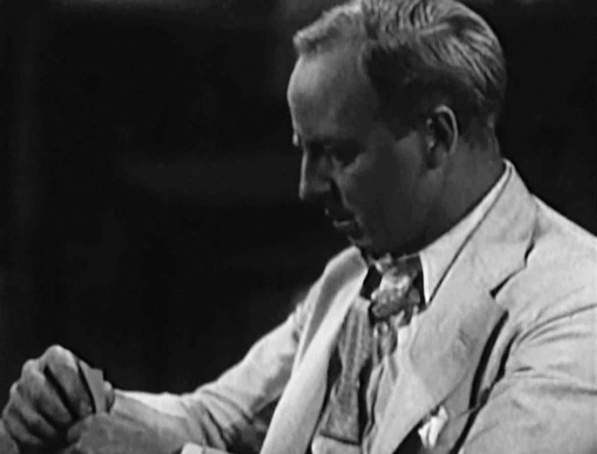 Low resolution screenshot of Gladden James as Roy Armstrong from the American public domain film Paradise Island (1930).